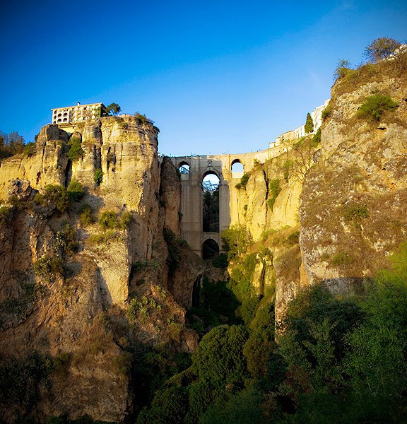 18th century bridge over El Tajo, river gorge dropping 130m. Parador de Ronda to the left.